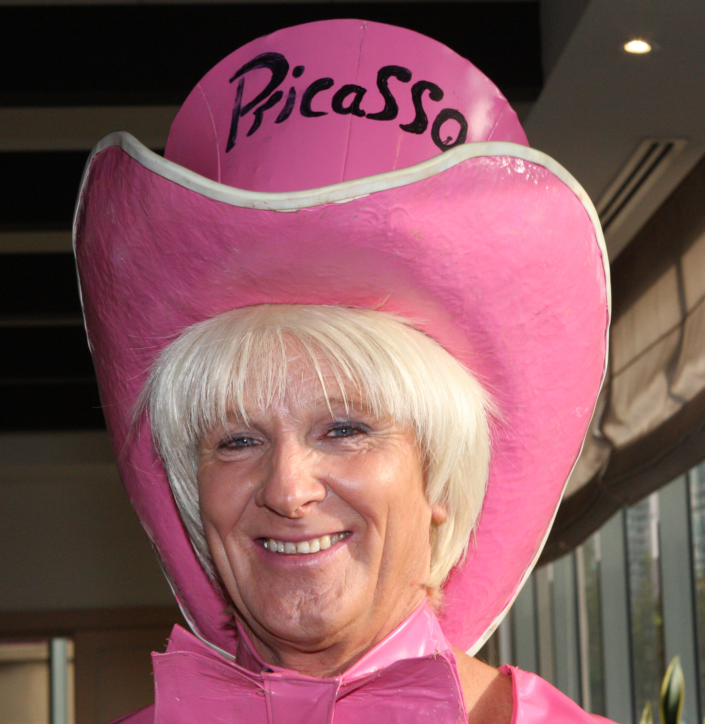 Pricasso at the 2012 Sexpo, held at Star City in Sydney.